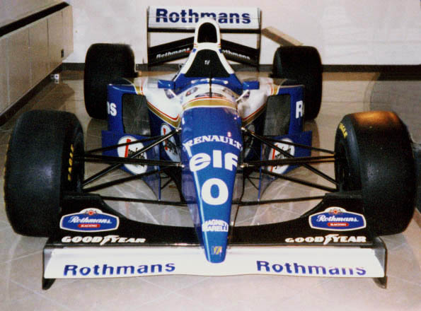 Williams FW16 pertencente a Damon Hill